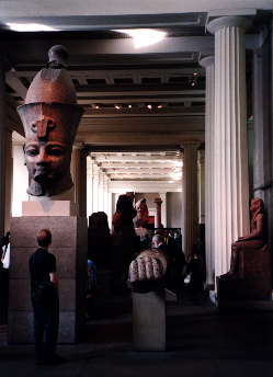 Photo of British Museum interior